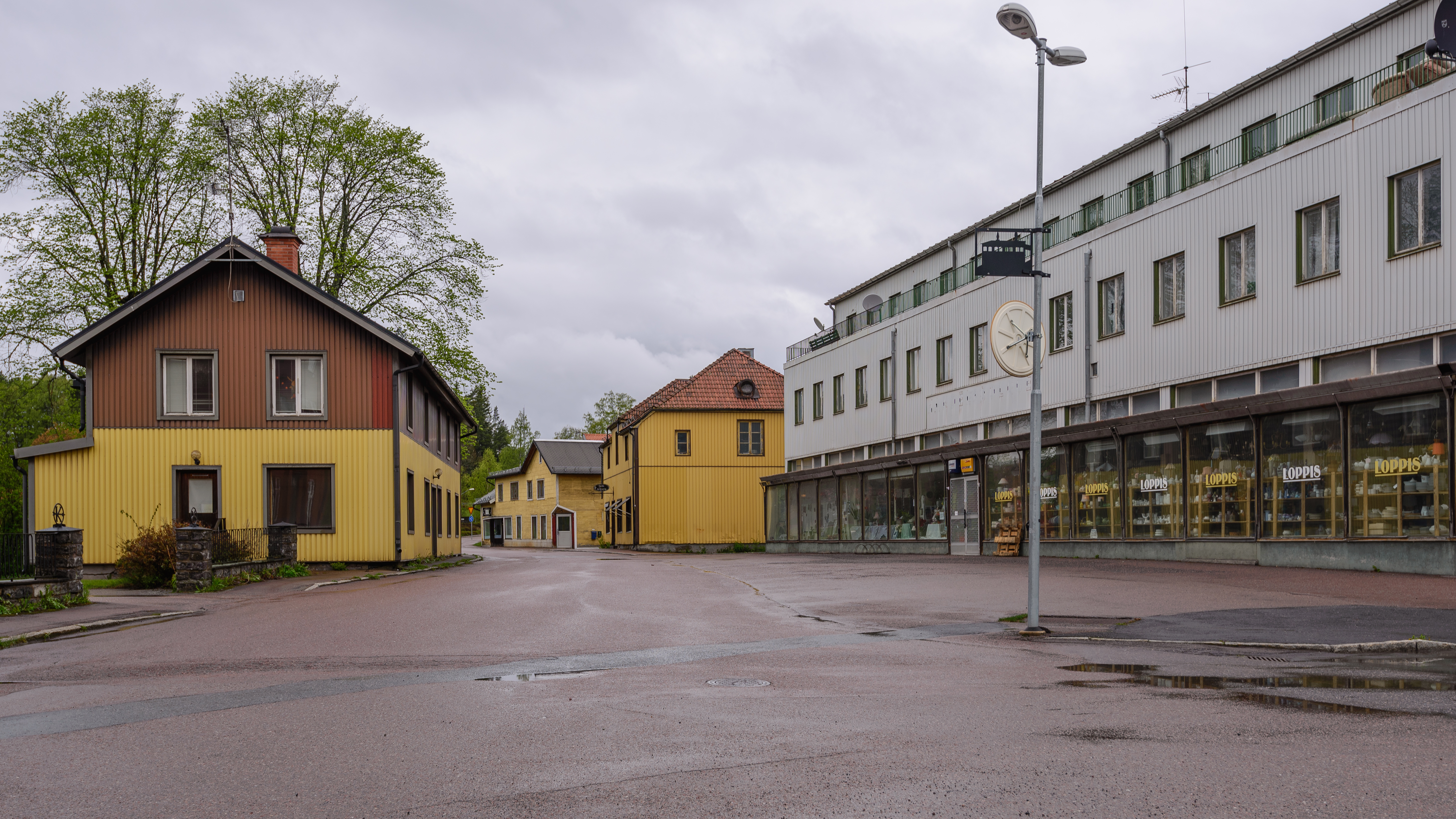 Buildings in Långshyttan, Hedemora Municipality.